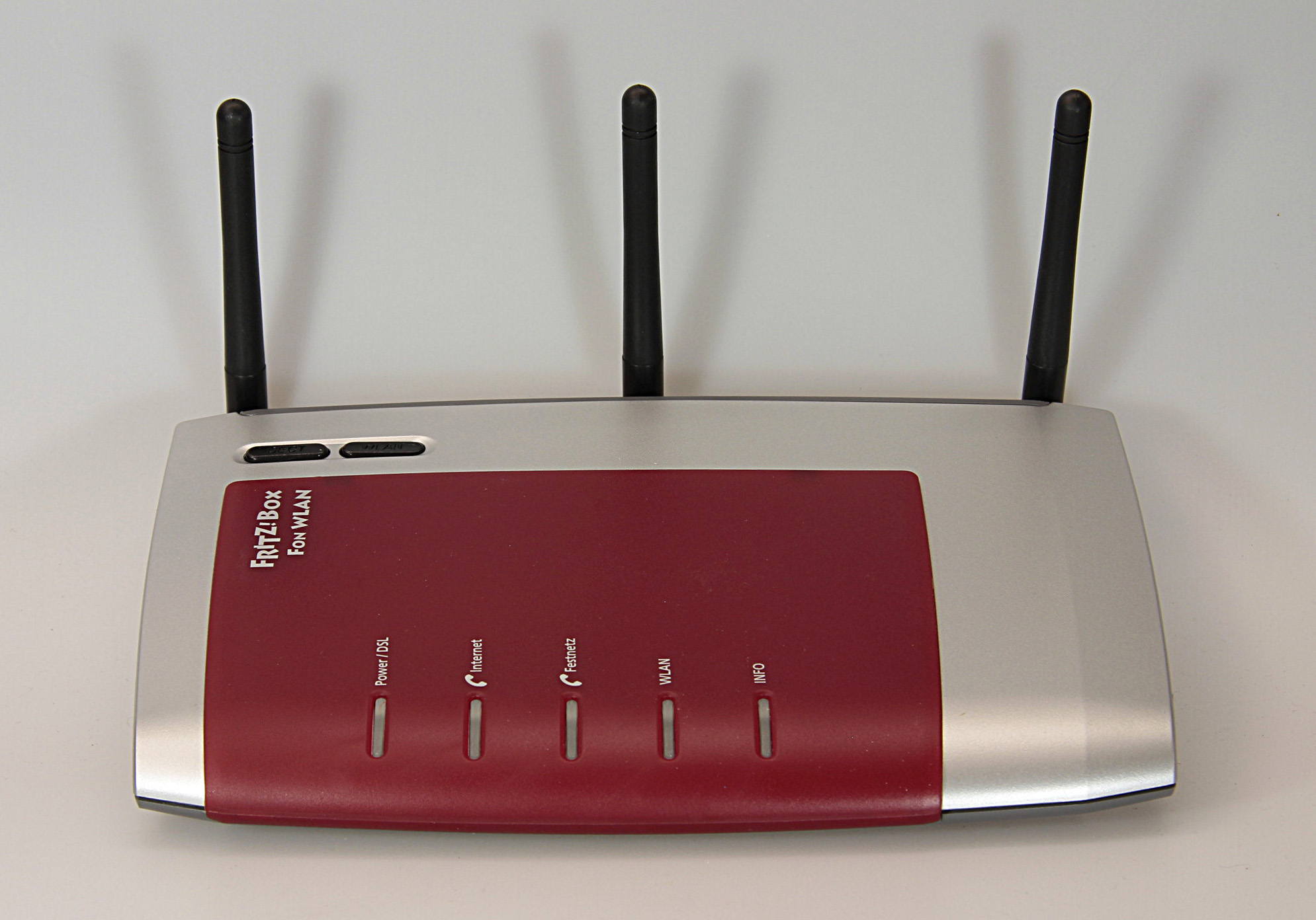 Fritz!box Fon WLAN 7270